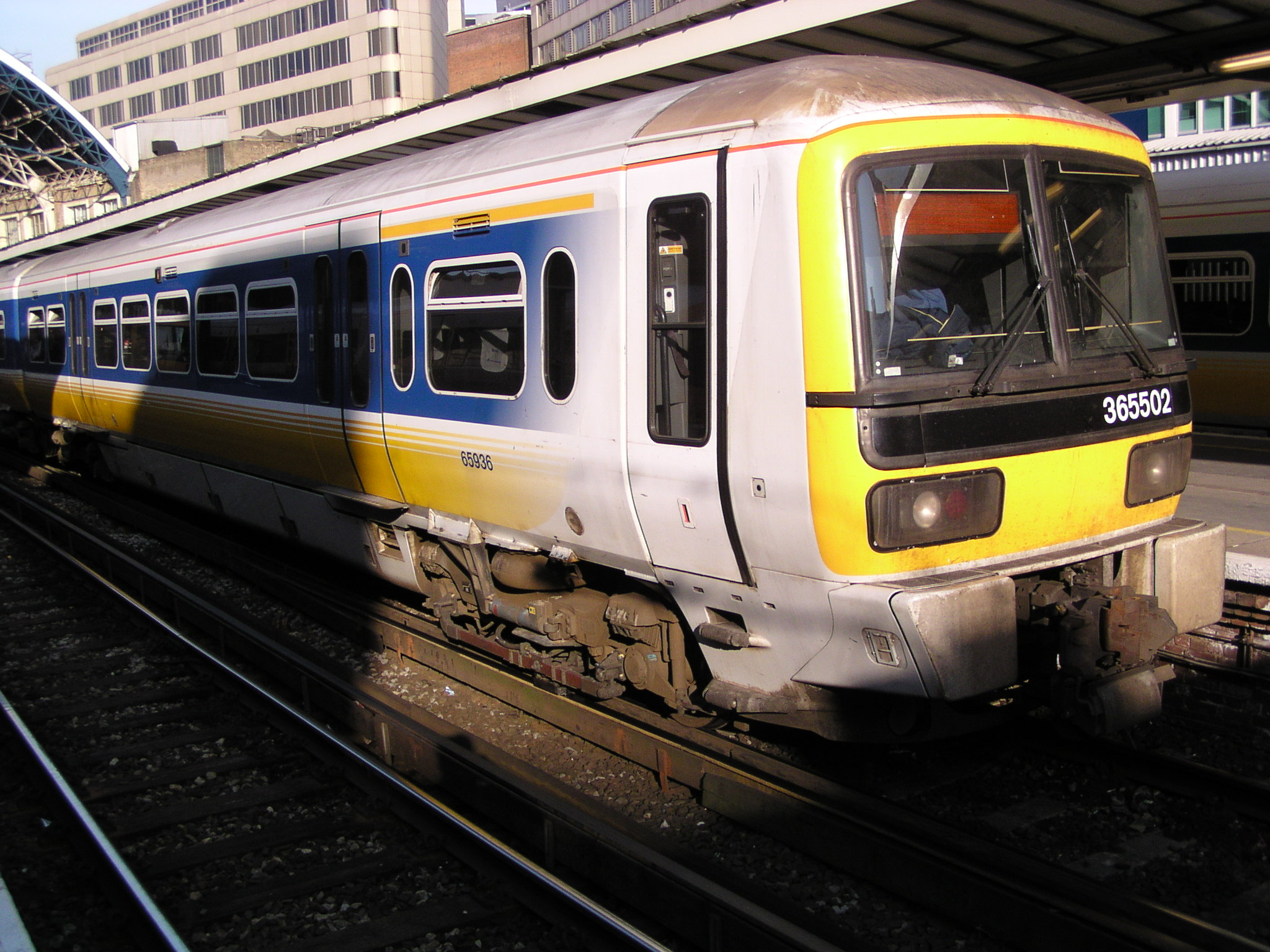 BR Class 365 "Networker Express", no. 365502 at London Victoria on 18th March 2003. This unit is pictured the original front end cab design, and is painted in Connex South Eastern "Networker" livery. This unit has since transferred to WAGN and then to First Capital Connect, and has received cab modifications. Image by Phil Scott (Our Phellap)